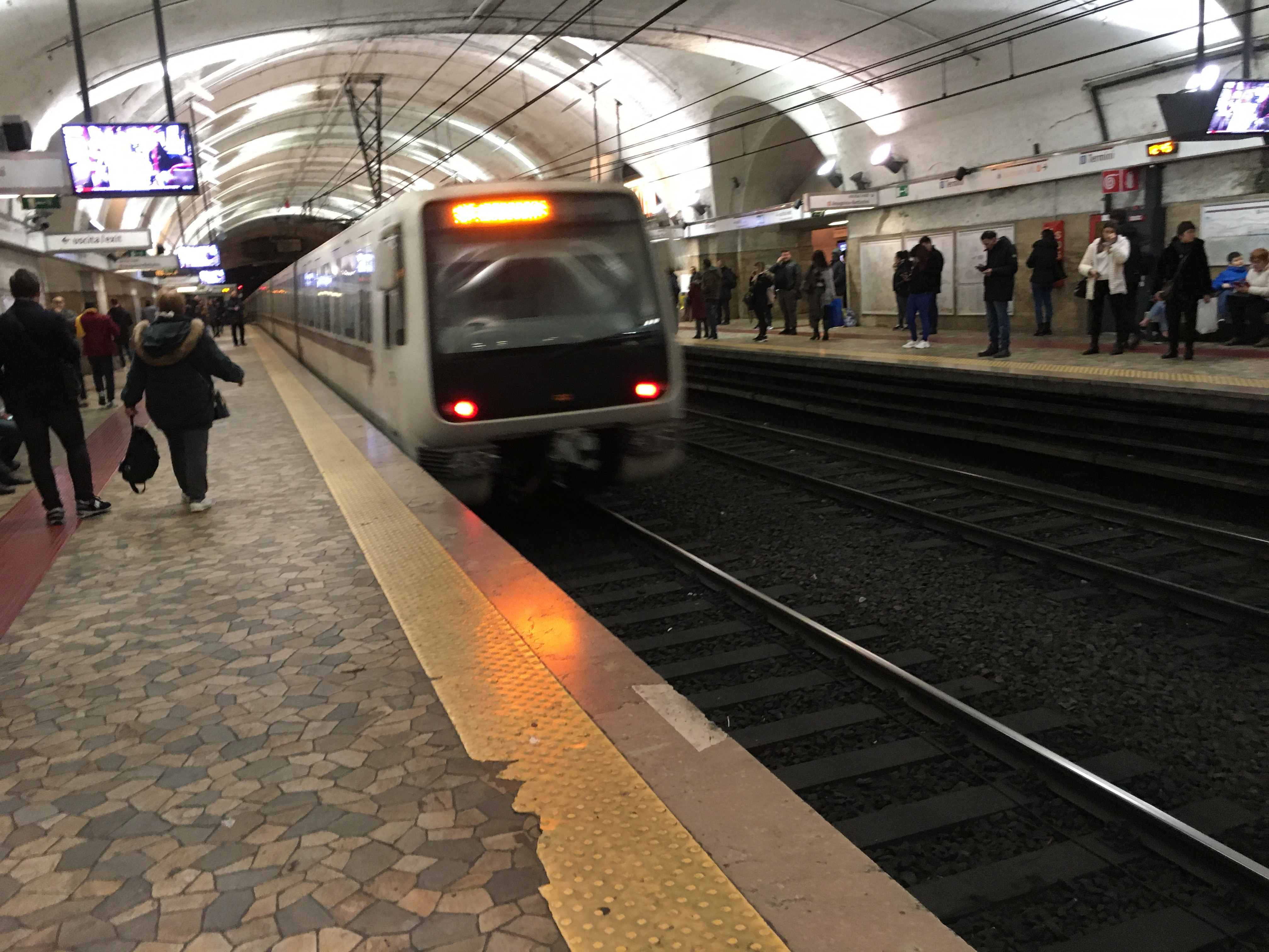 Roma Metro Linea B S/300 train at Termini Station